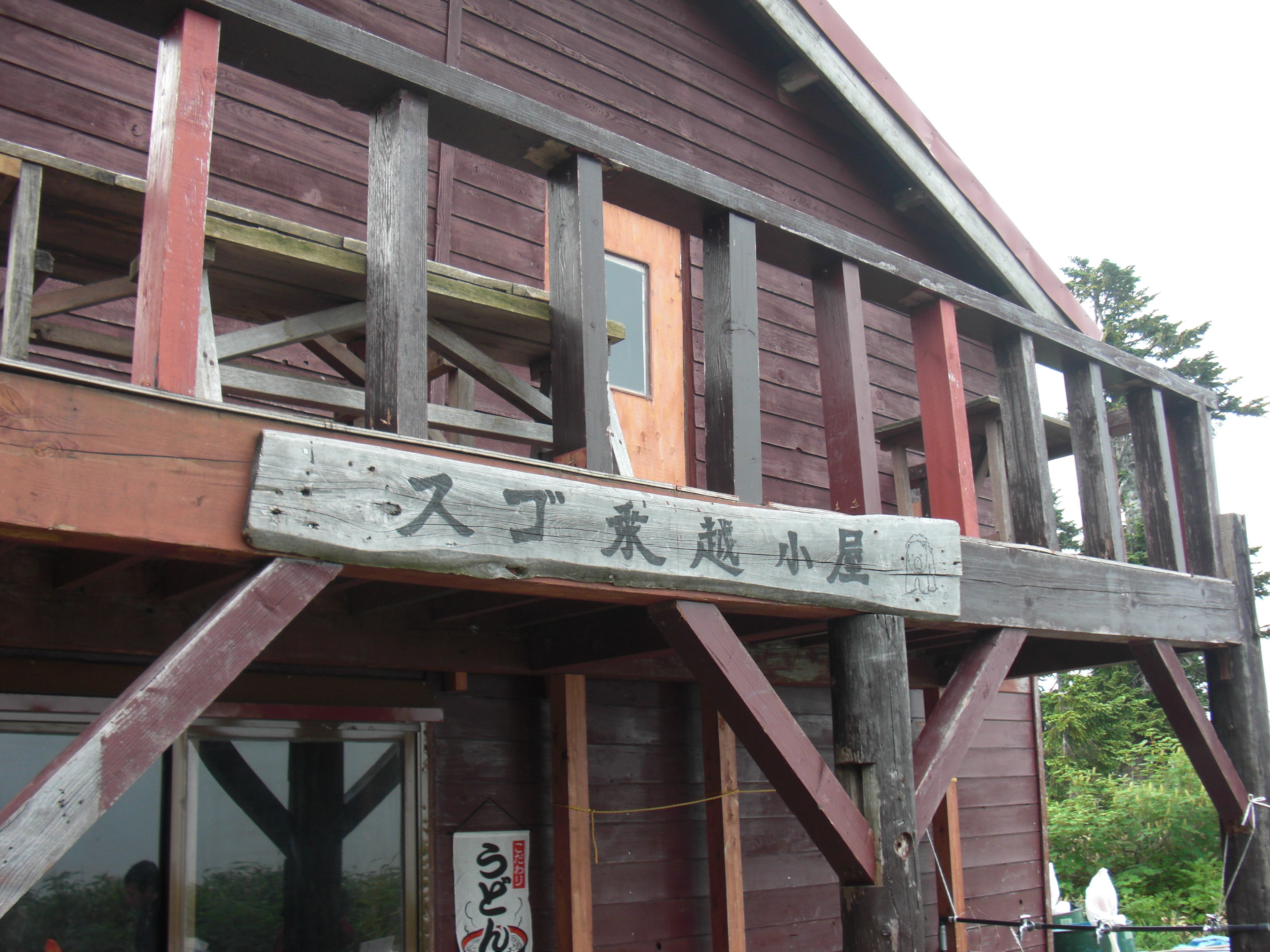 A mountain lodge called Sugo-nokkoshi hut in Hida Mountains, Japan. This hut is located in a col between Mount Ecchuzawa and Mount Yakushi.